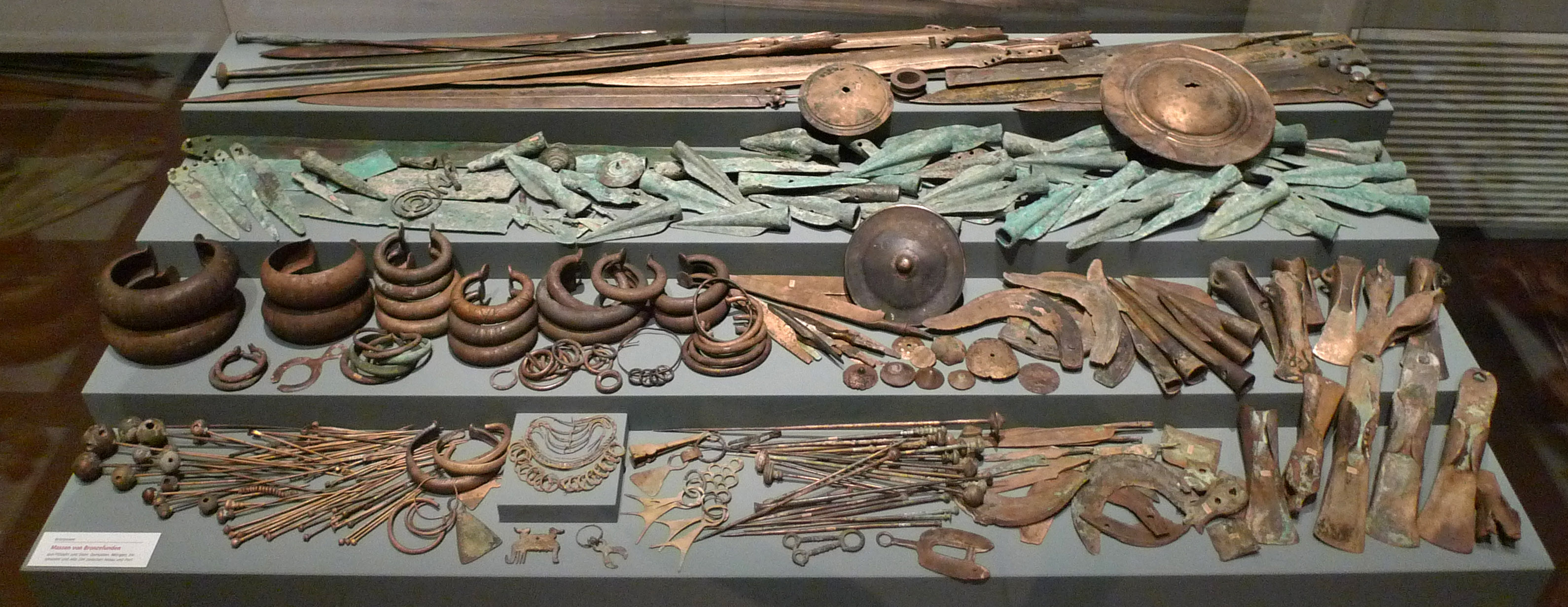 A collection of Bronze Age bronze finds retrieved from rivers and lakes (Gampelen, Mörigen, Petersinsel, Alte Zihl) in the Canton of Bern, Switzerland.